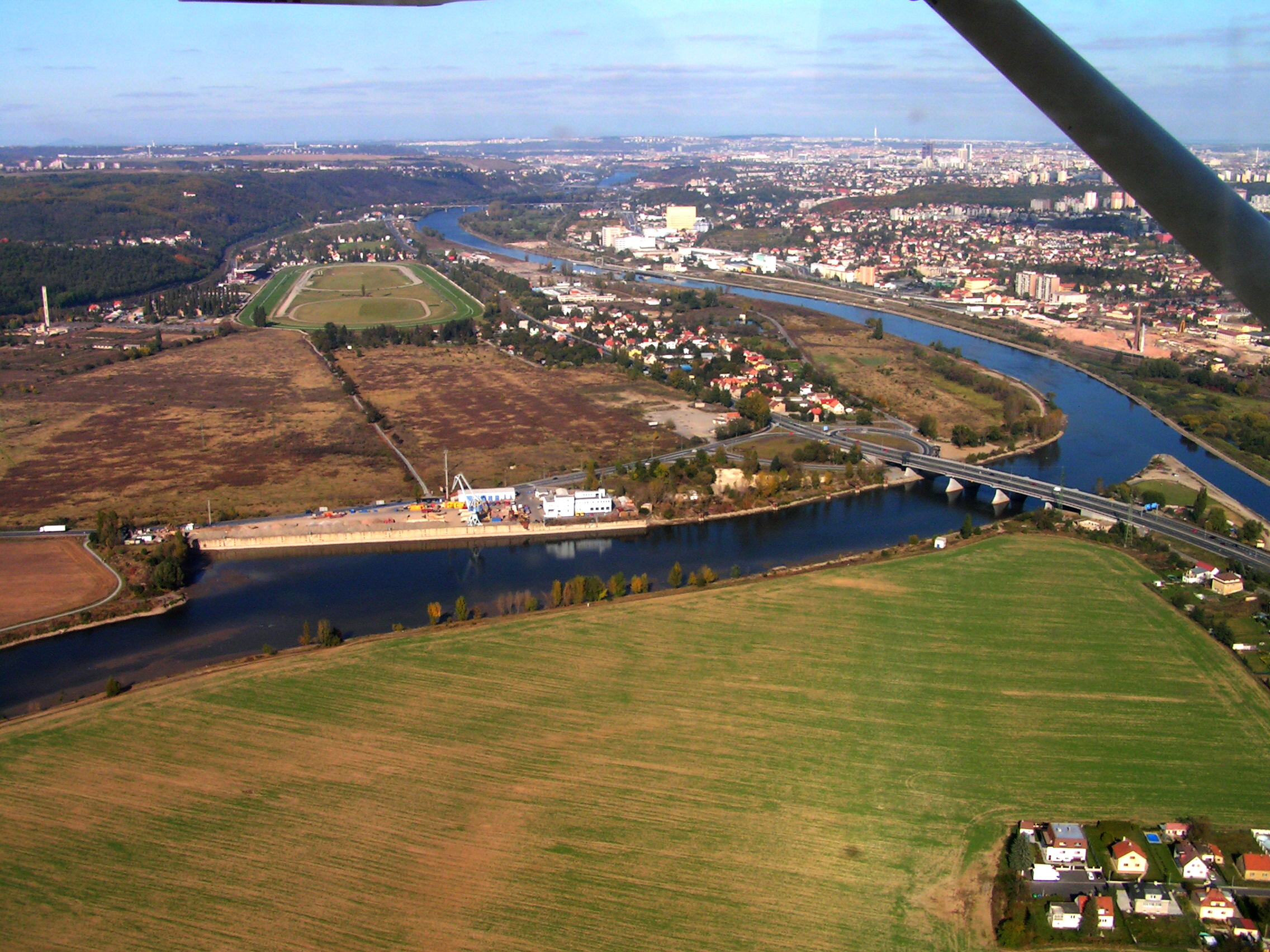 Confluence of Berounka and Vltava river